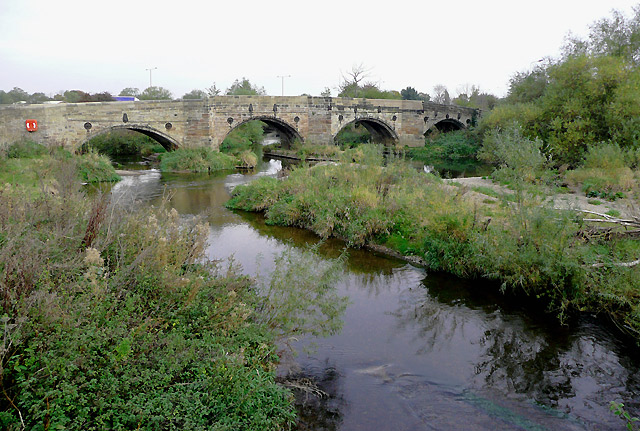 Bridge over the River Dove, near Burton-on-Trent. This fine stone road bridge used to carry the A38 road before the recent dual carriageway upgrades round Burton were constructed in 1967/8. Seen from the aqueduct carrying the Trent and Mersey Canal. Alan was on the towpath side of the canal and about 50 metres to the east. 955075